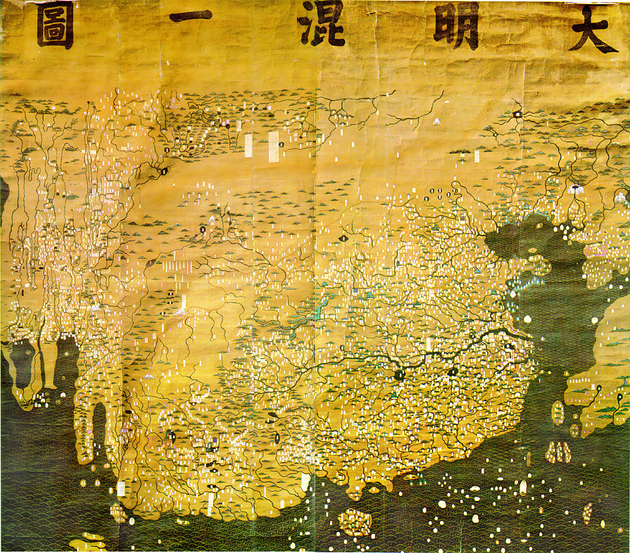 The Composite Map of the Ming Empire (Da Ming Hunyi Tu) reflects the political situation in AD 1389 but was likely painted much later. Original Chinese labels were later covered with Manchu on paper slips.